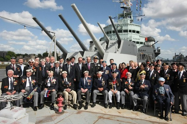 9 May 2011